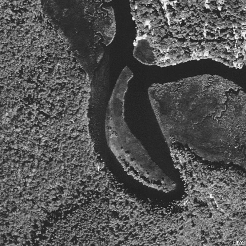 Aerial image of the Spruce Creek Mound Complex (Port Orange, Florida), bluff overlooking the Spruce Creek. (Adjusted for correct location)